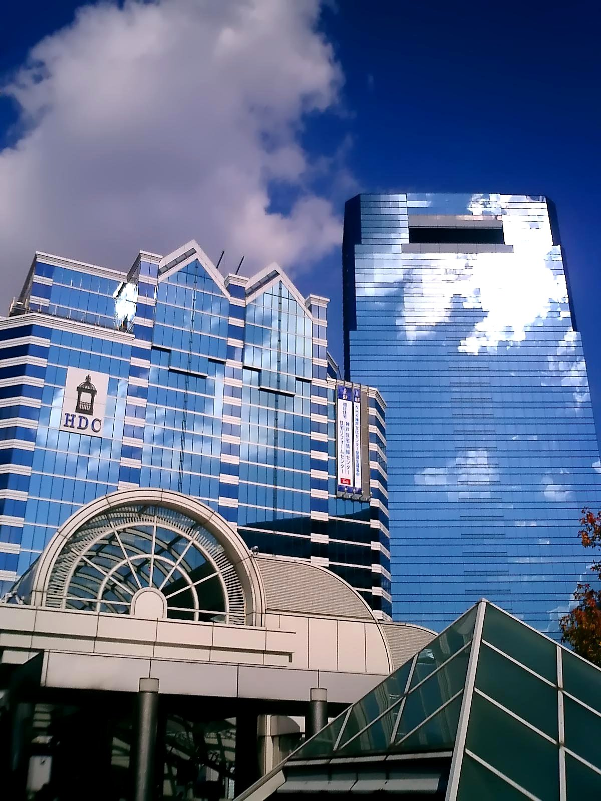 Housing_design_center_harborland_Kobe_and_Kobe_Crystal_tower